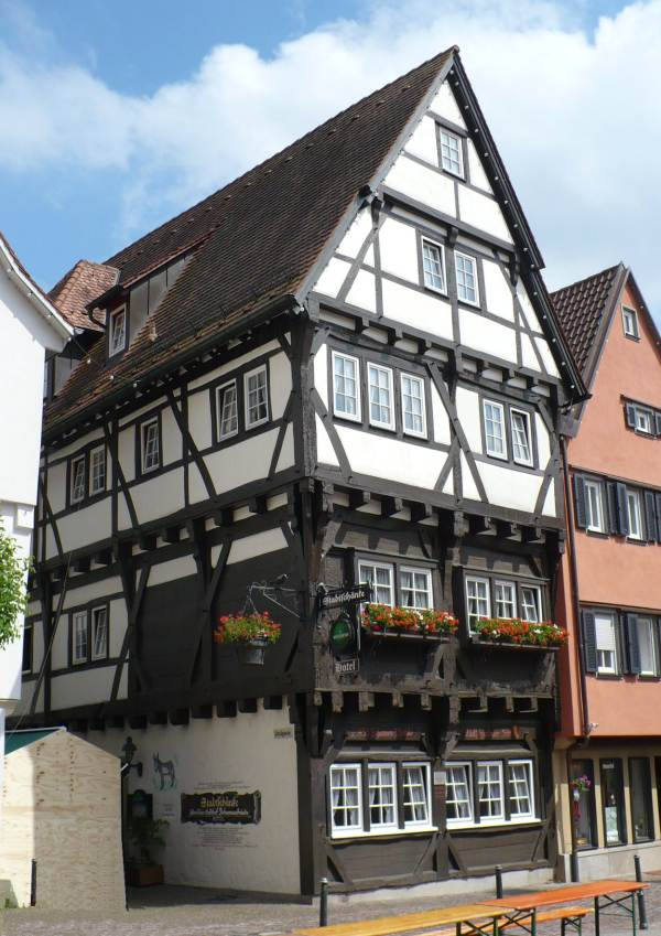 Restaurant in Großbottwar, Germany